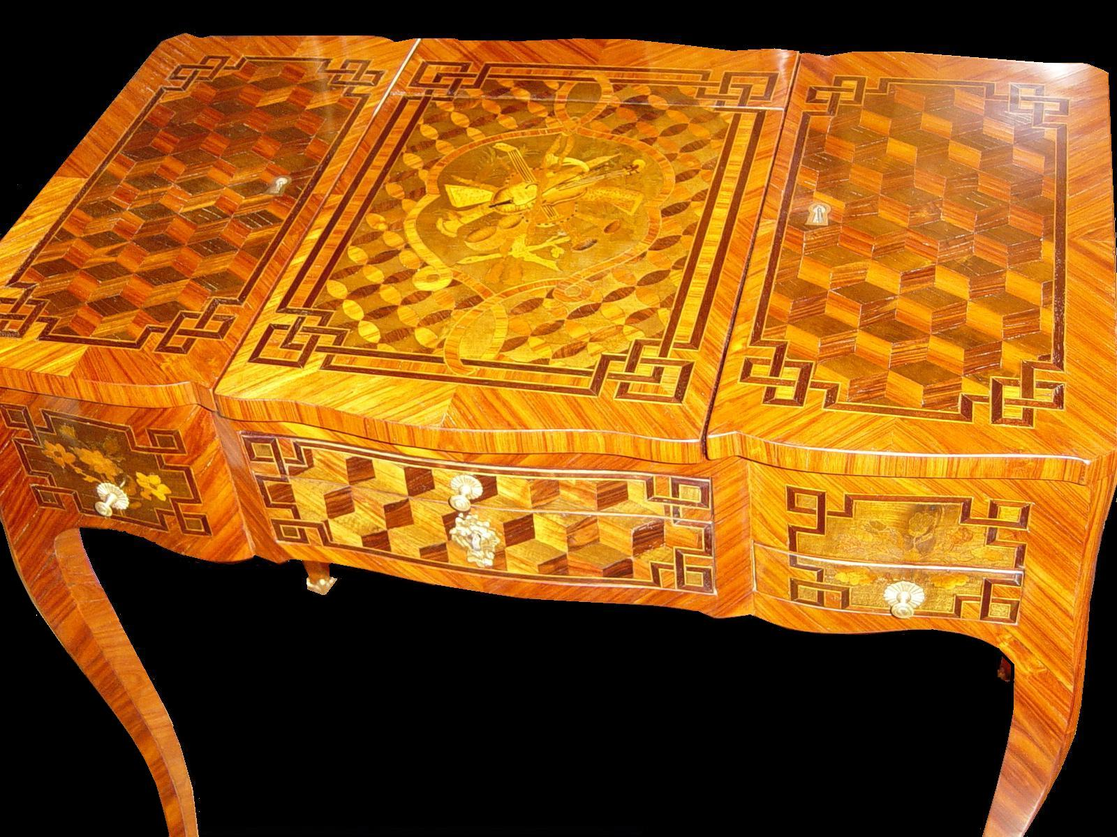 French 18th-century (Louis XV period) dressing table made by cabinetmaker Pierre Roussel (1723 - 1782)